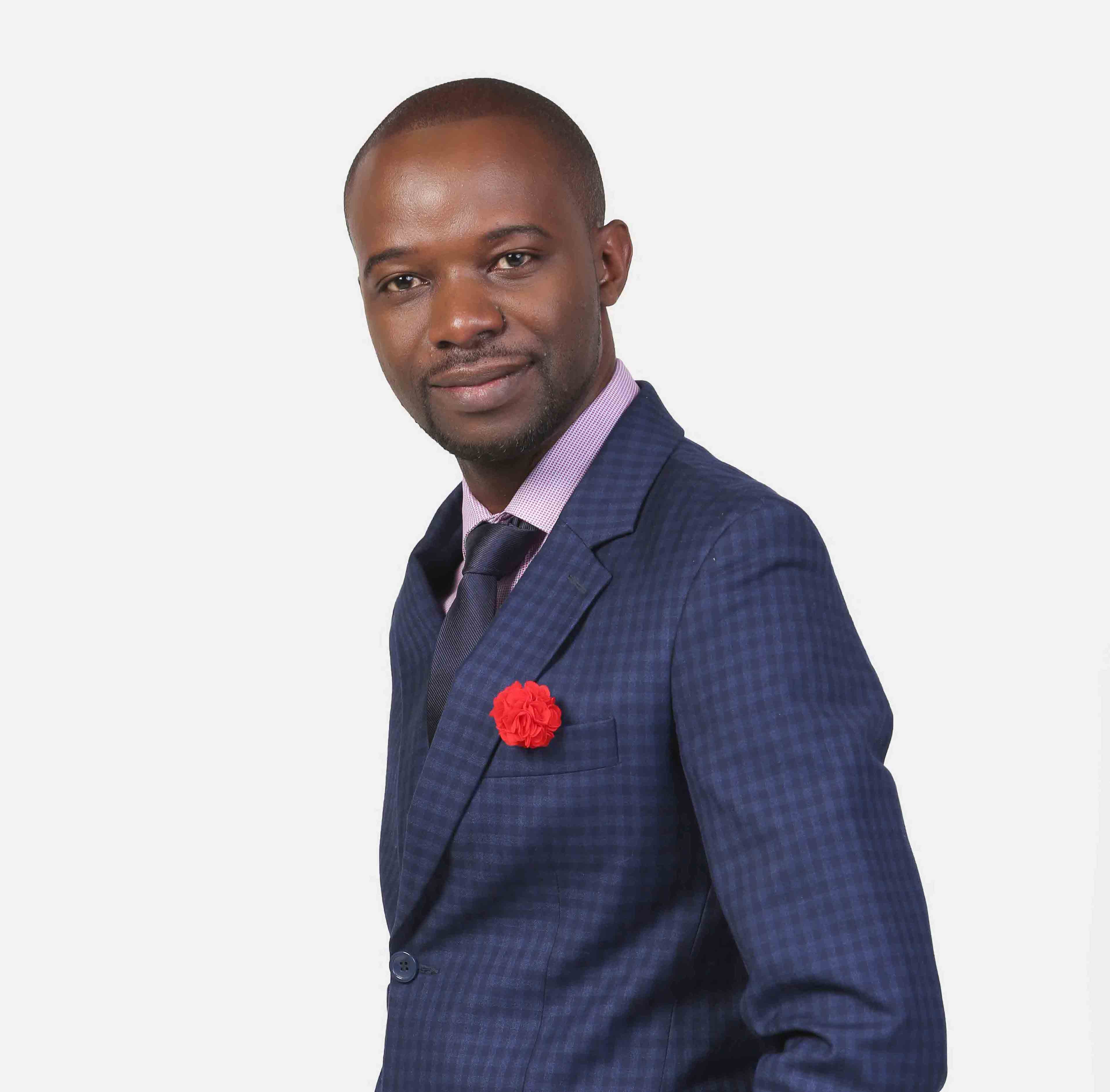 Akweyu agundabweni in 2018